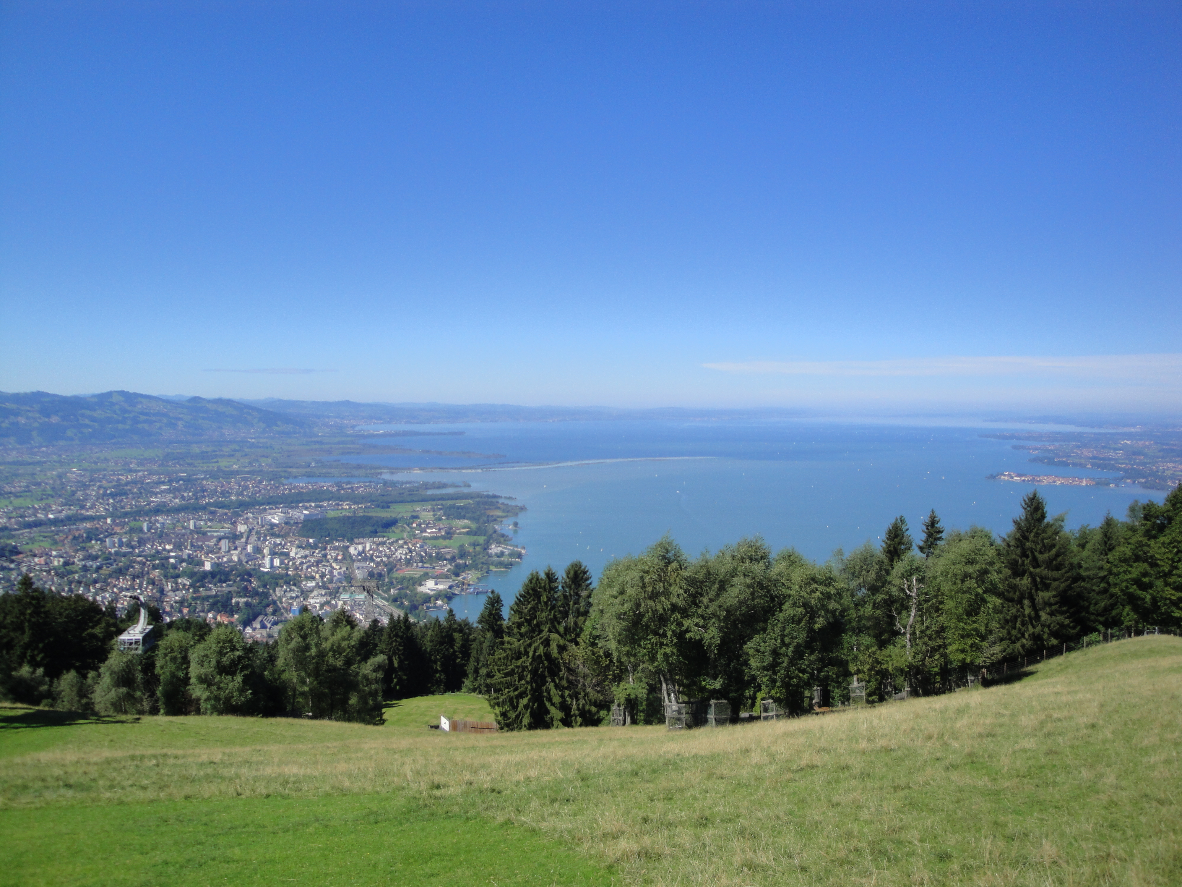 Bregenz seen from the Pfänder